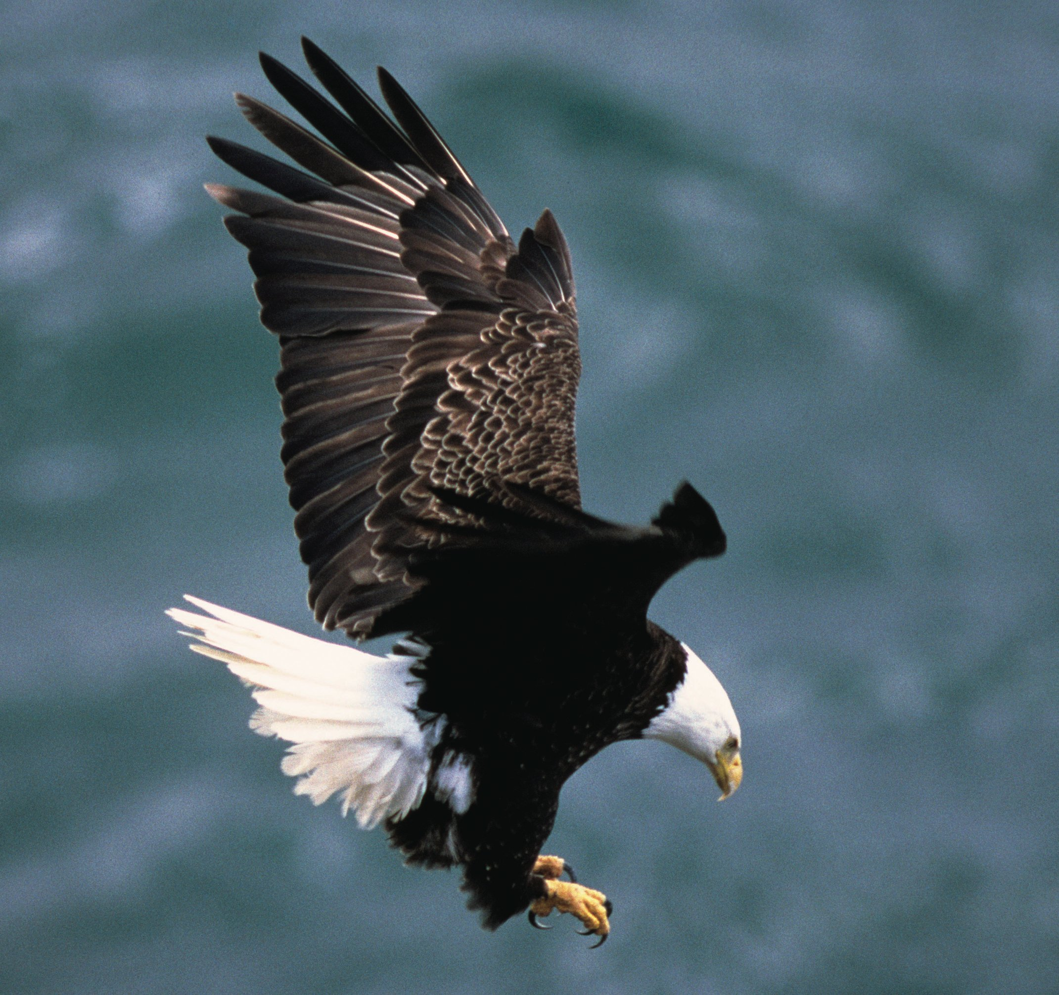 Great Seal of the United States